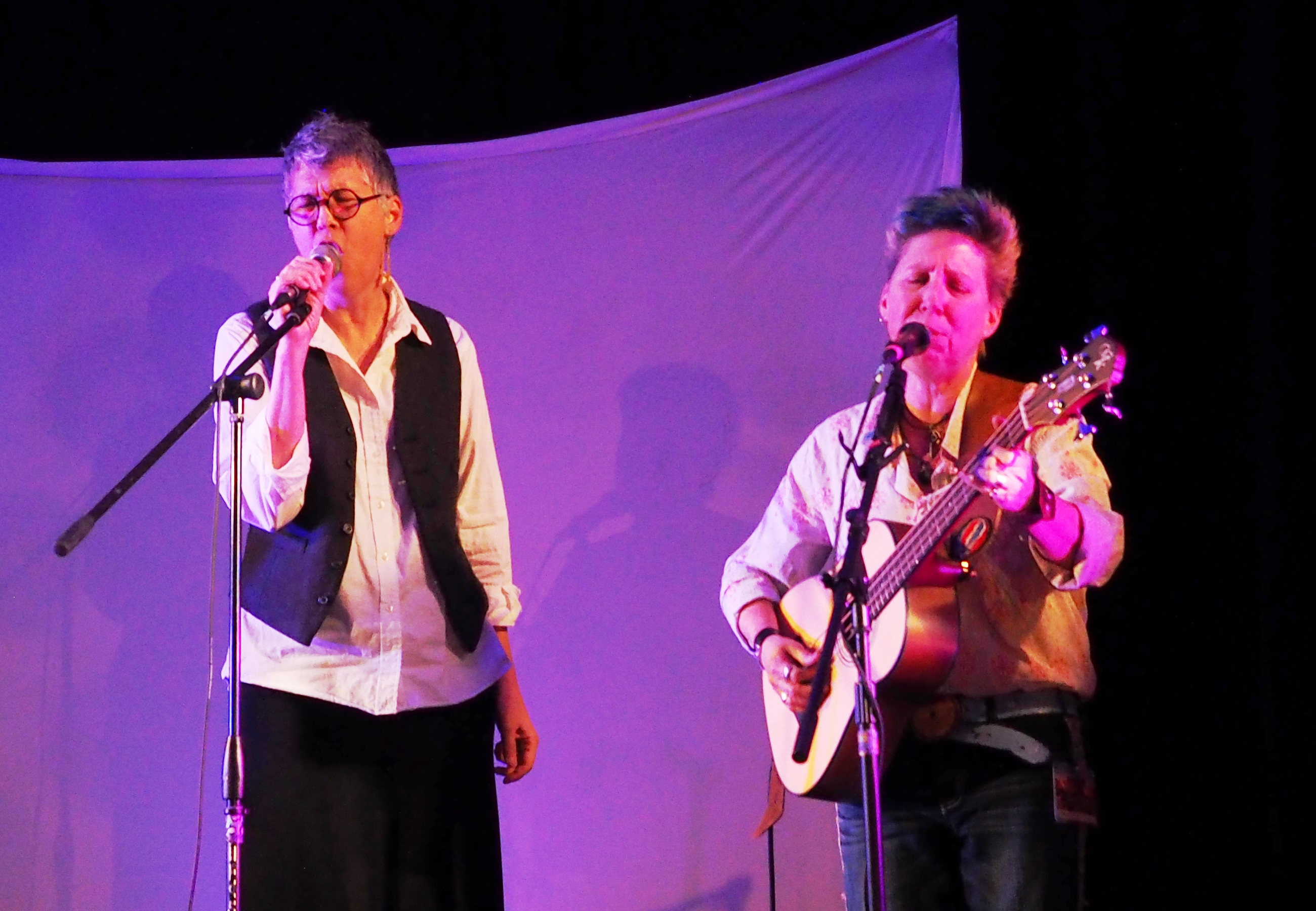 Emma Bull and Lojo Russo performing in reunion of Cats Laughing at Minicon 50.